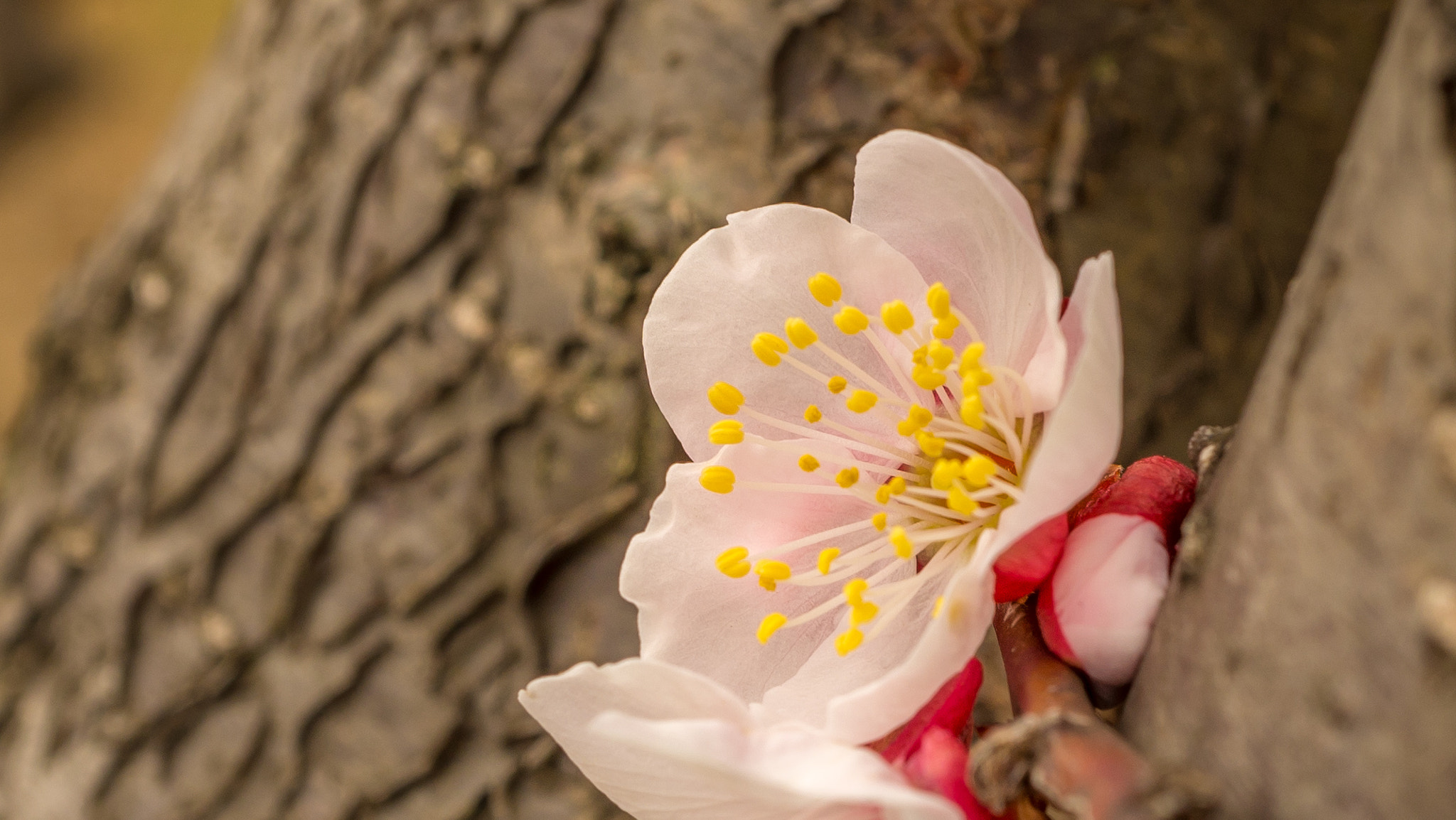 500px provided description: ????????Prunus mume??????????????????????????? [#macro ,#flower ,#? ,#??? ,#??? ,#?? ,#??? ,#??]